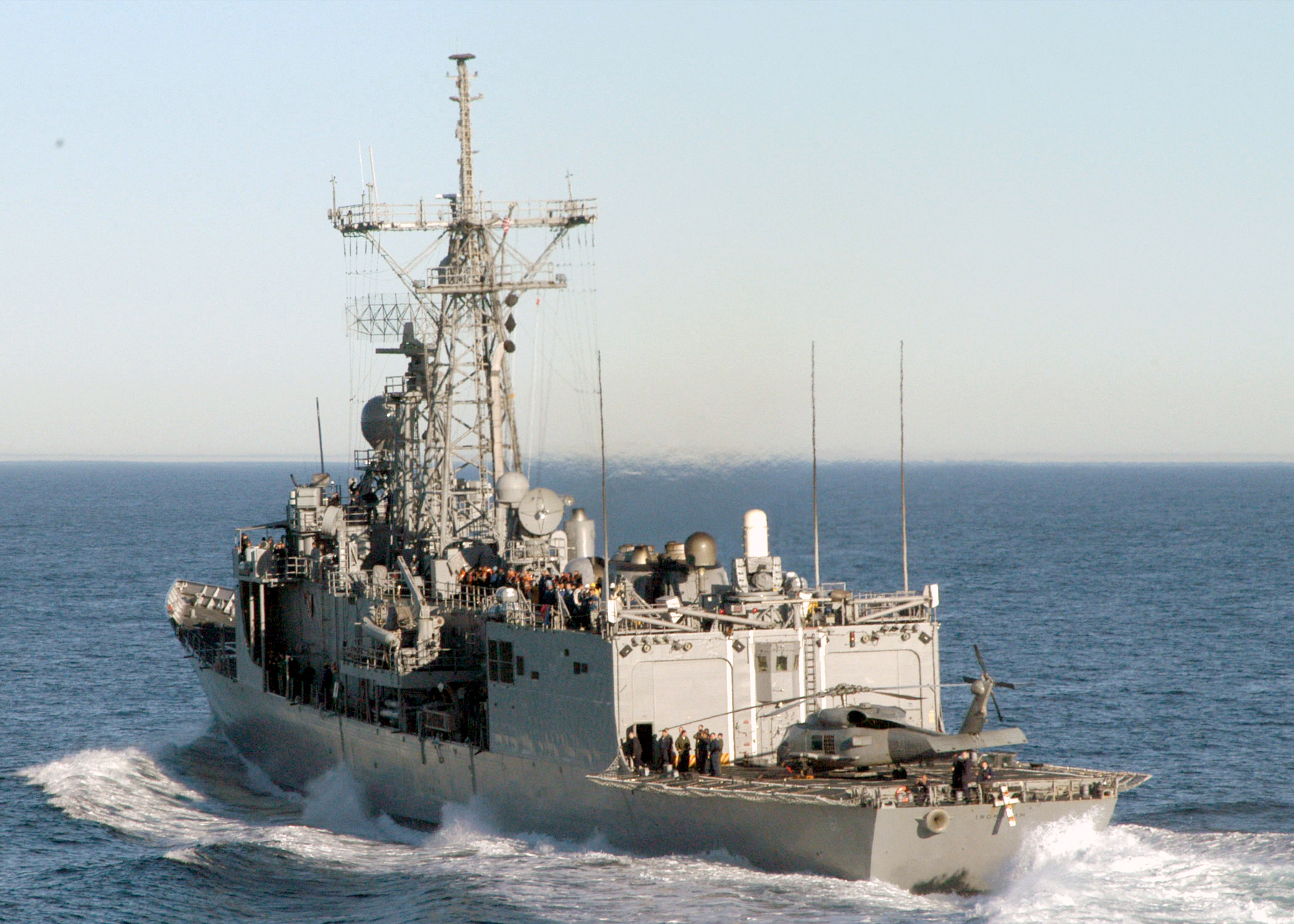 021120-N-7267C-009 At sea with USS Carl Vinson -- The guided missile frigate USS Ingraham (FFG 61) sails away after completing a replenishment at sea (RAS) evolution with the nuclear aircraft carrier Carl Vinson. Both ships are currently underway off the south western coast of California conducting training in preparation for their next regular scheduled deployment.